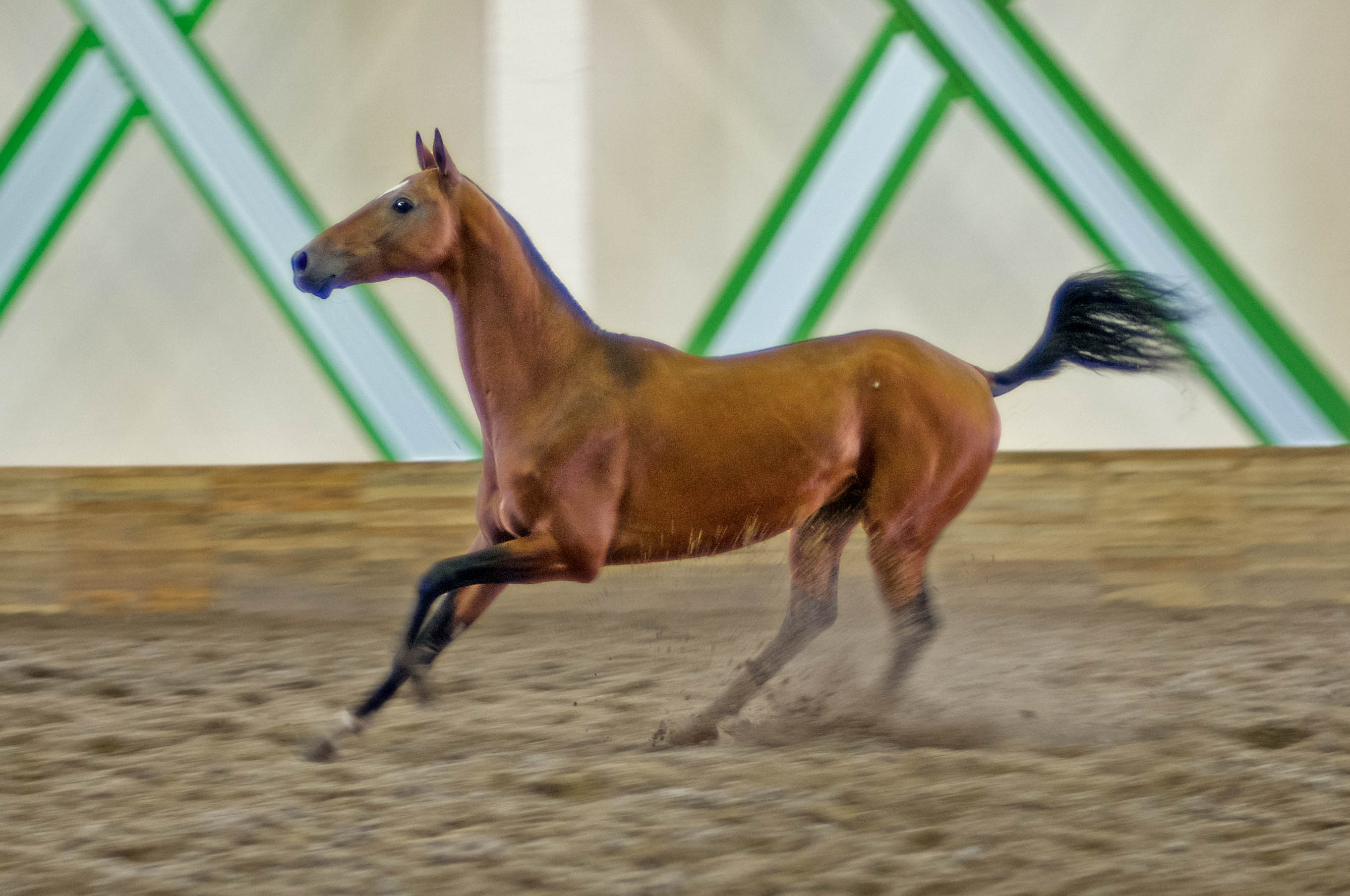 visiting more horses